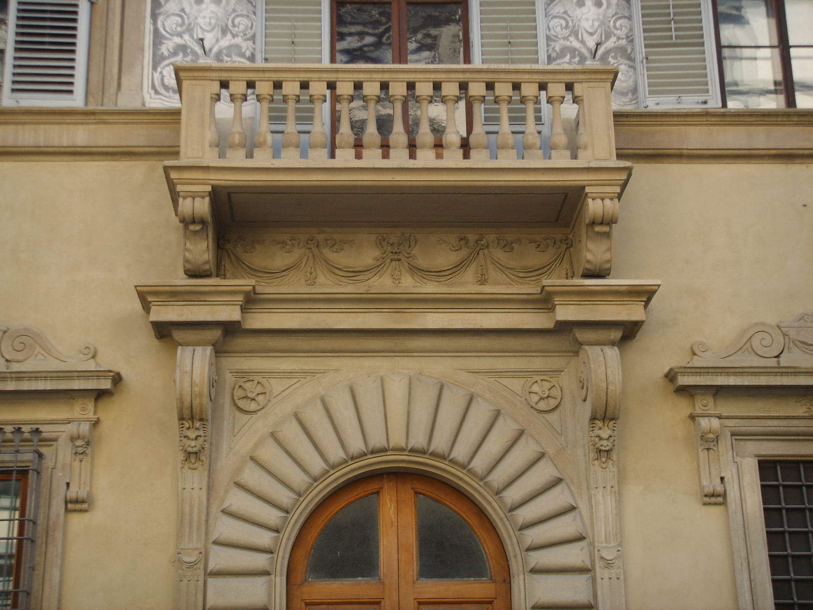 Detail from the portal of "Palazzo Nasi" palace (now a part of "Palazzo Torrigiani Del Nero" palace) in Piazza dei Mozzi square in Florence, Italy.